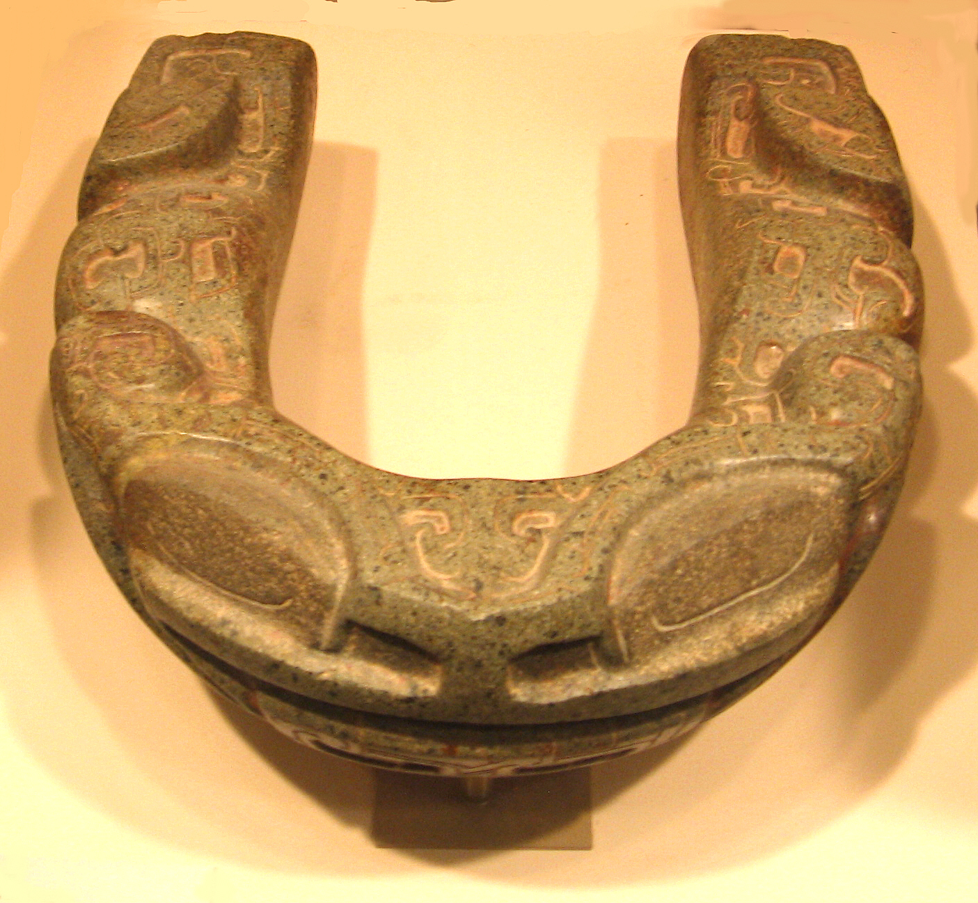 A stone yoke, with frog-style or earth-monster-style ornamention, from Veracruz, 700-1000 CE.